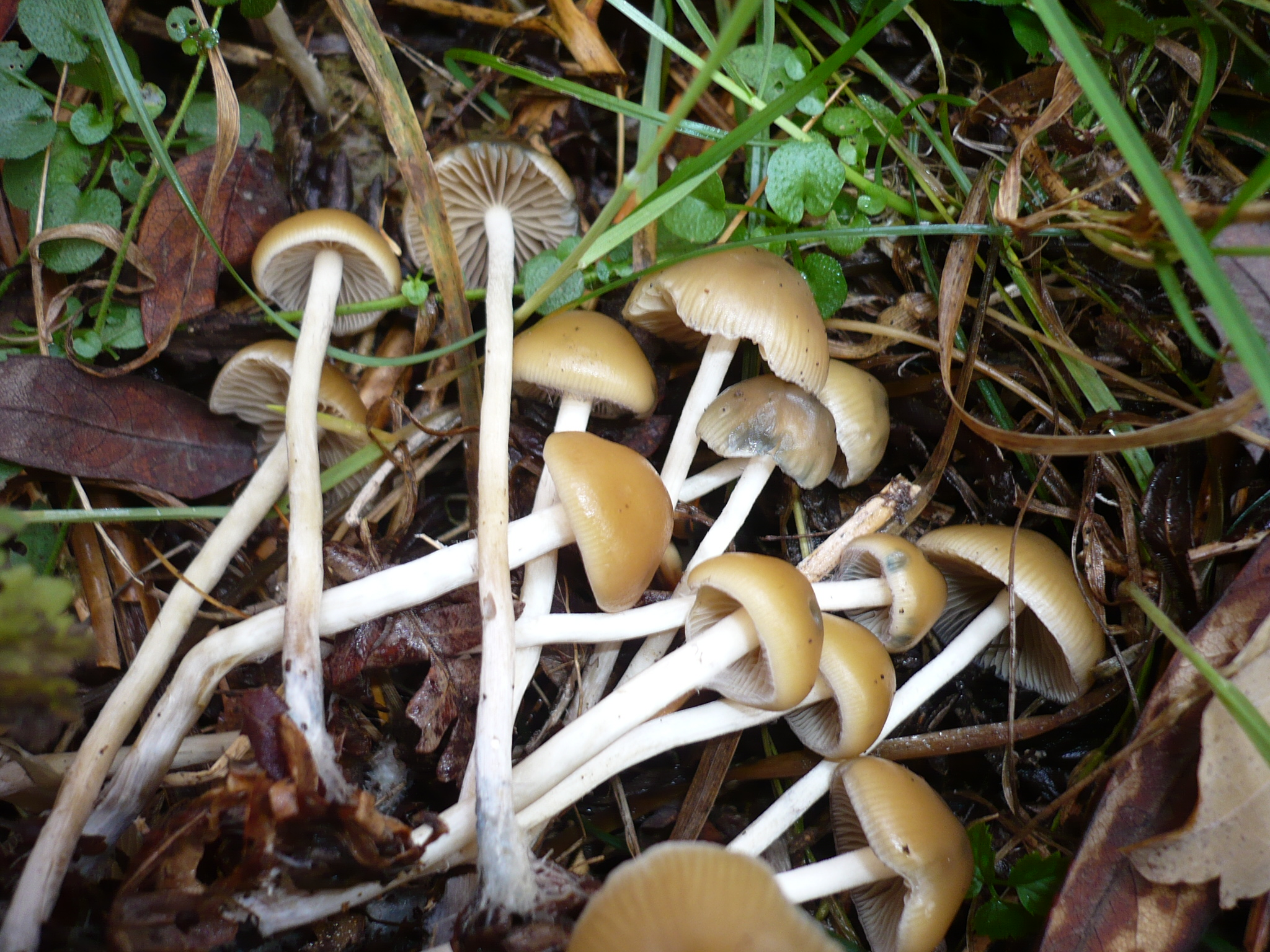 Psilocybe bohemica